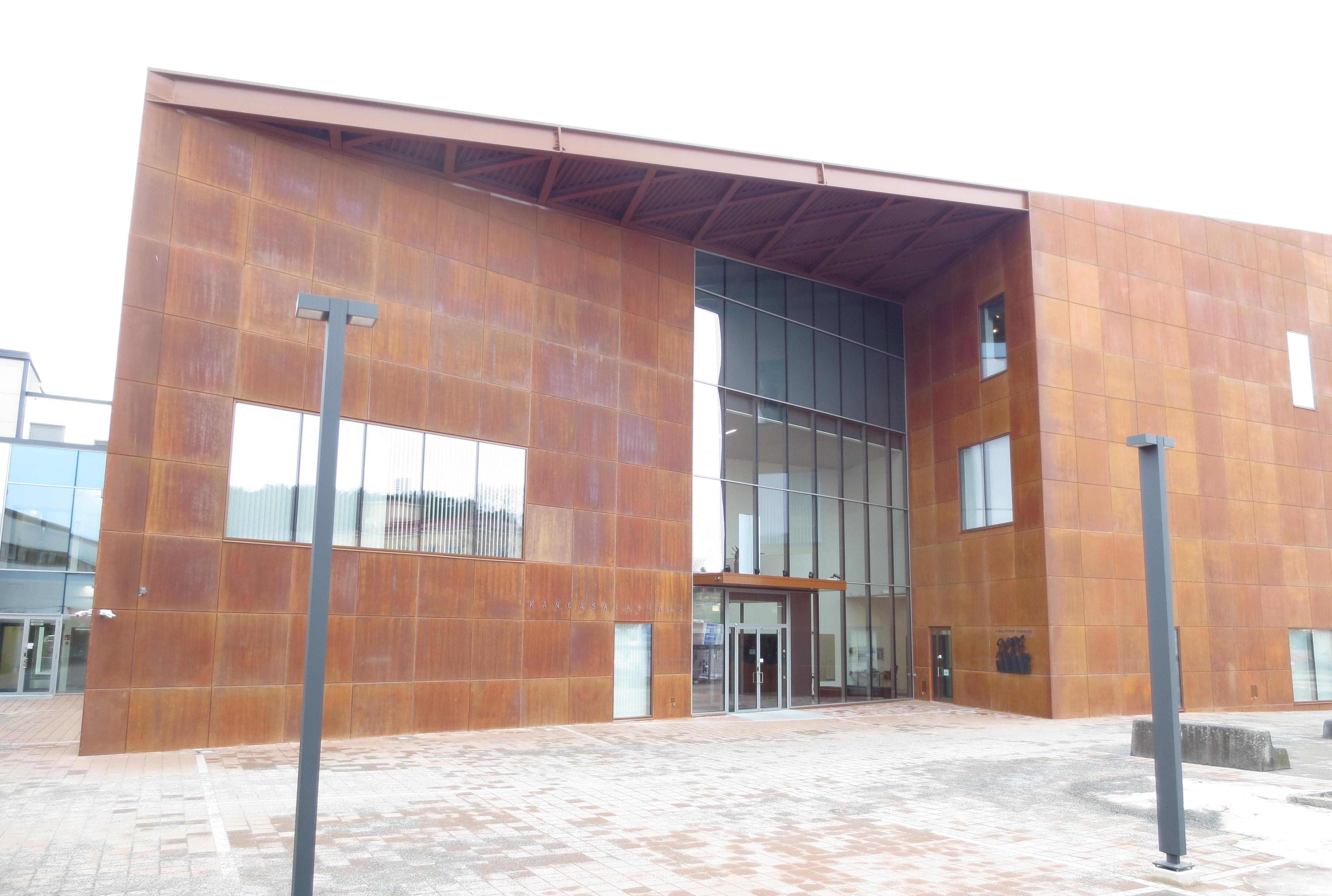 Kangasala Arts Centre